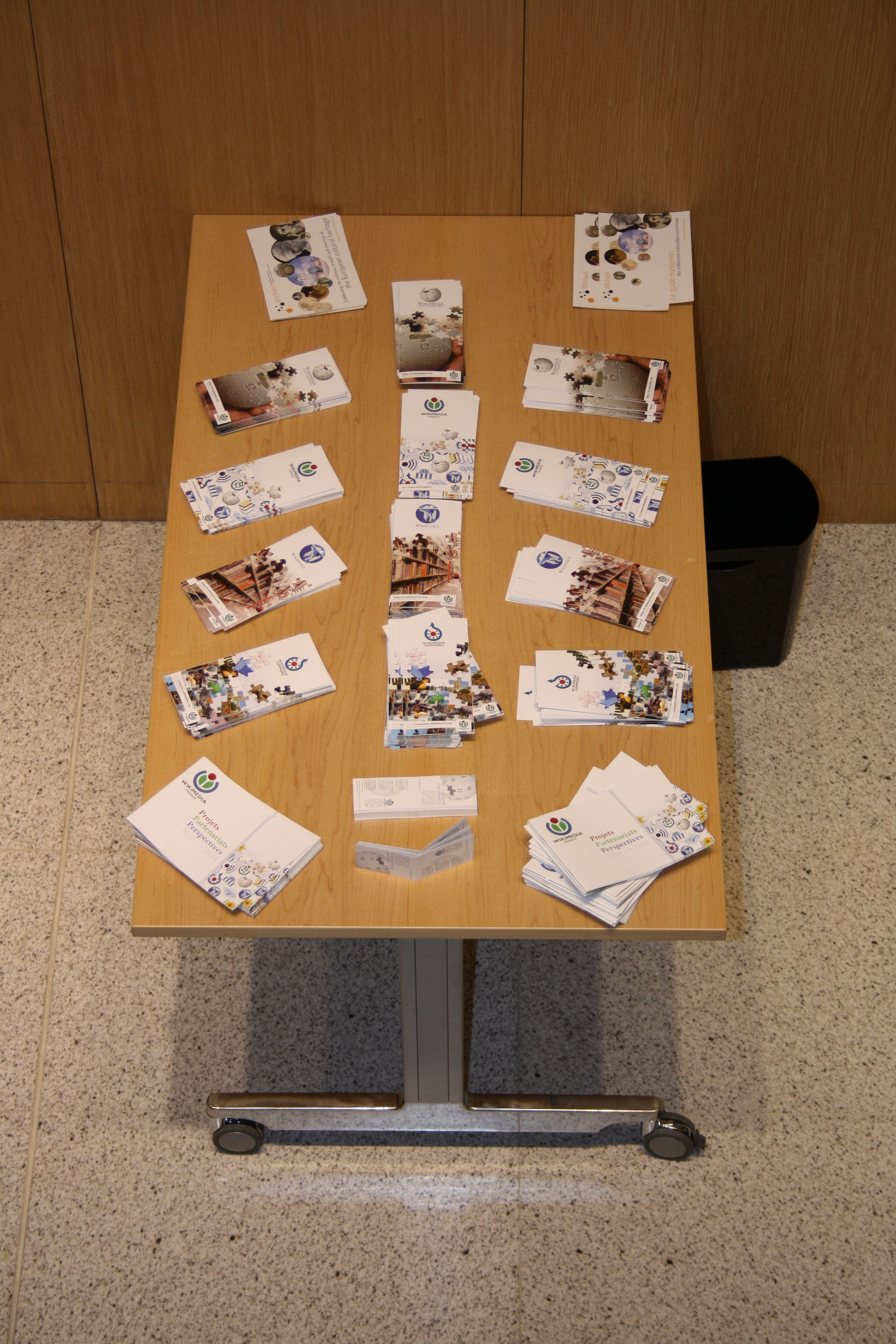 Table with flyers from Wikimedia France in the lobby next to the room Victor Hugo in the National Assembly of France during the Rencontres Wikimedia France (GLAM-WIKI:FR 2010) event saturday, december the 4th 2010.